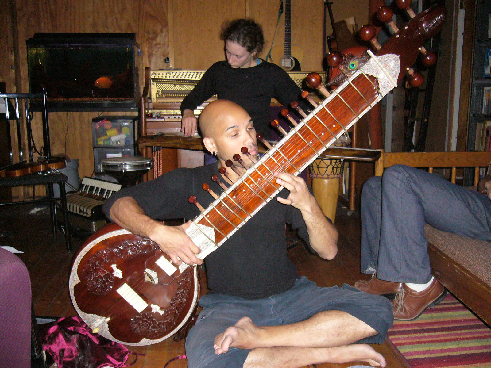 A surbahar performance in Ann Arbor, Michigan in September 2005